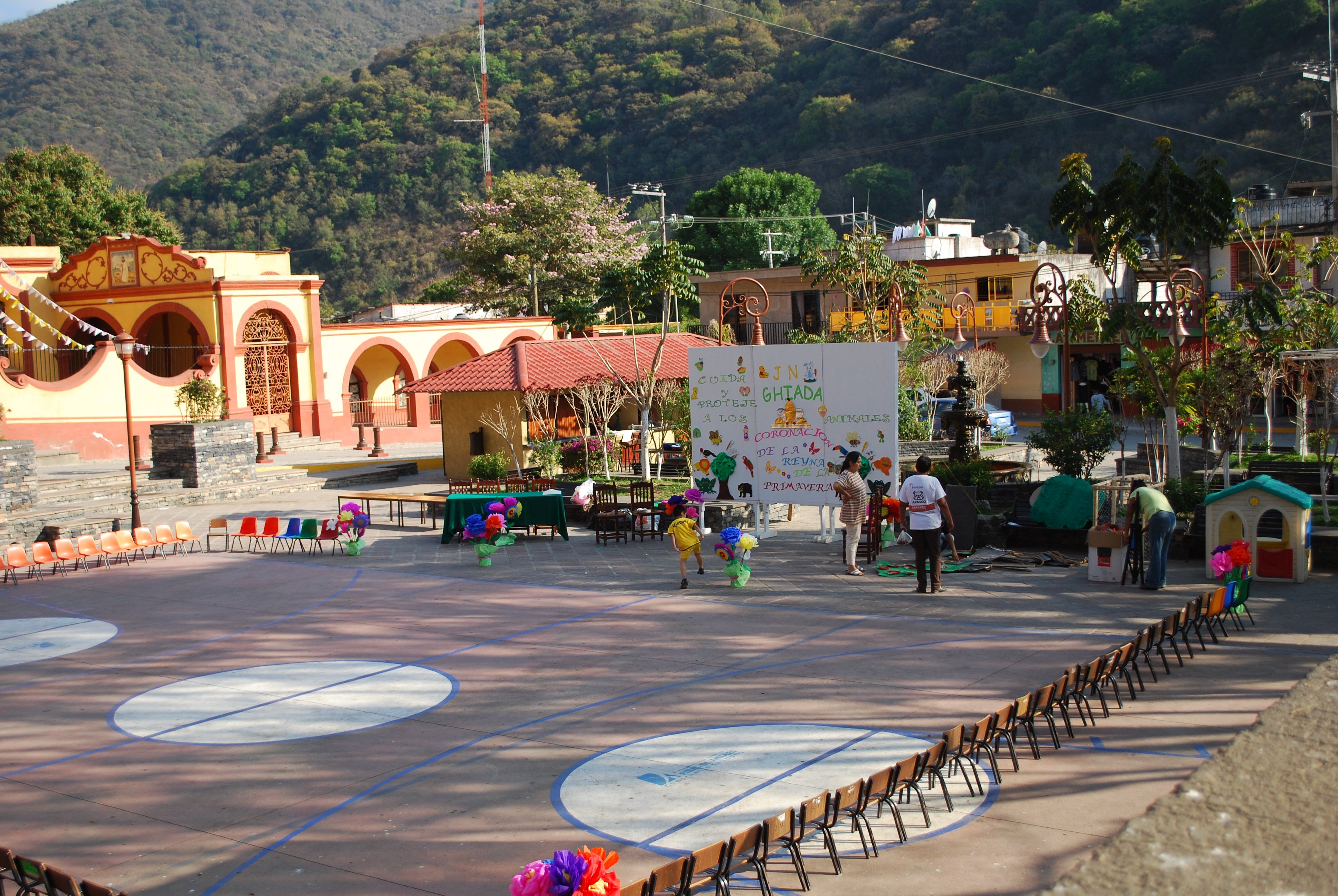 Main plaza/basketball court of Santa María Ahuacatlán, Pinal de Amoles, Querétaro, Mexico